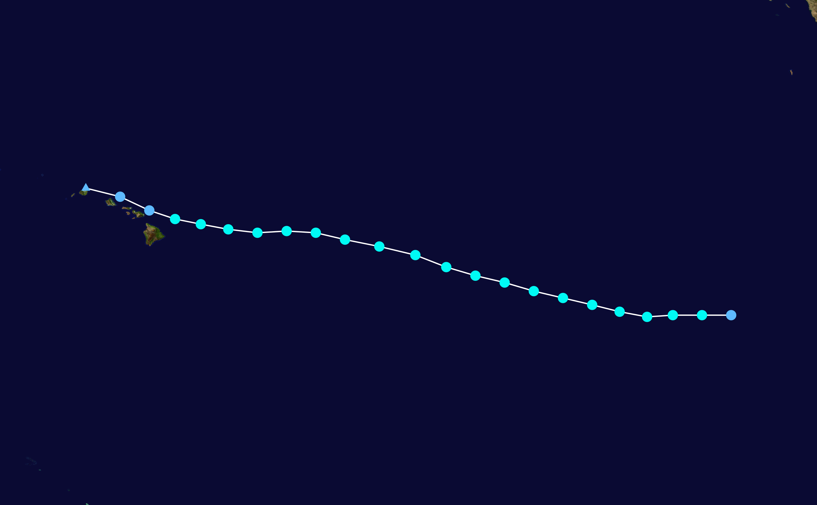 Track map of Tropical Storm Flossie of the 2013 Pacific hurricane season. The points show the location of the storm at 6-hour intervals. The colour represents the storm's maximum sustained wind speeds as classified in the Saffir–Simpson scale (see below), and the shape of the data points represent the nature of the storm, according to the legend below. Saffir–Simpson scale Tropical depression≤38 mph≤62 km/h Category 3111–129 mph178–208 km/h Tropical storm39–73 mph63–118 km/h Category 4130–156 mph209–251 km/h Category 174–95 mph119–153 km/h Category 5≥157 mph≥252 km/h Category 296–110 mph154–177 km/h Unknown Storm type Tropical cyclone Subtropical cyclone Extratropical cyclone / Remnant low / Tropical disturbance / Monsoon depression